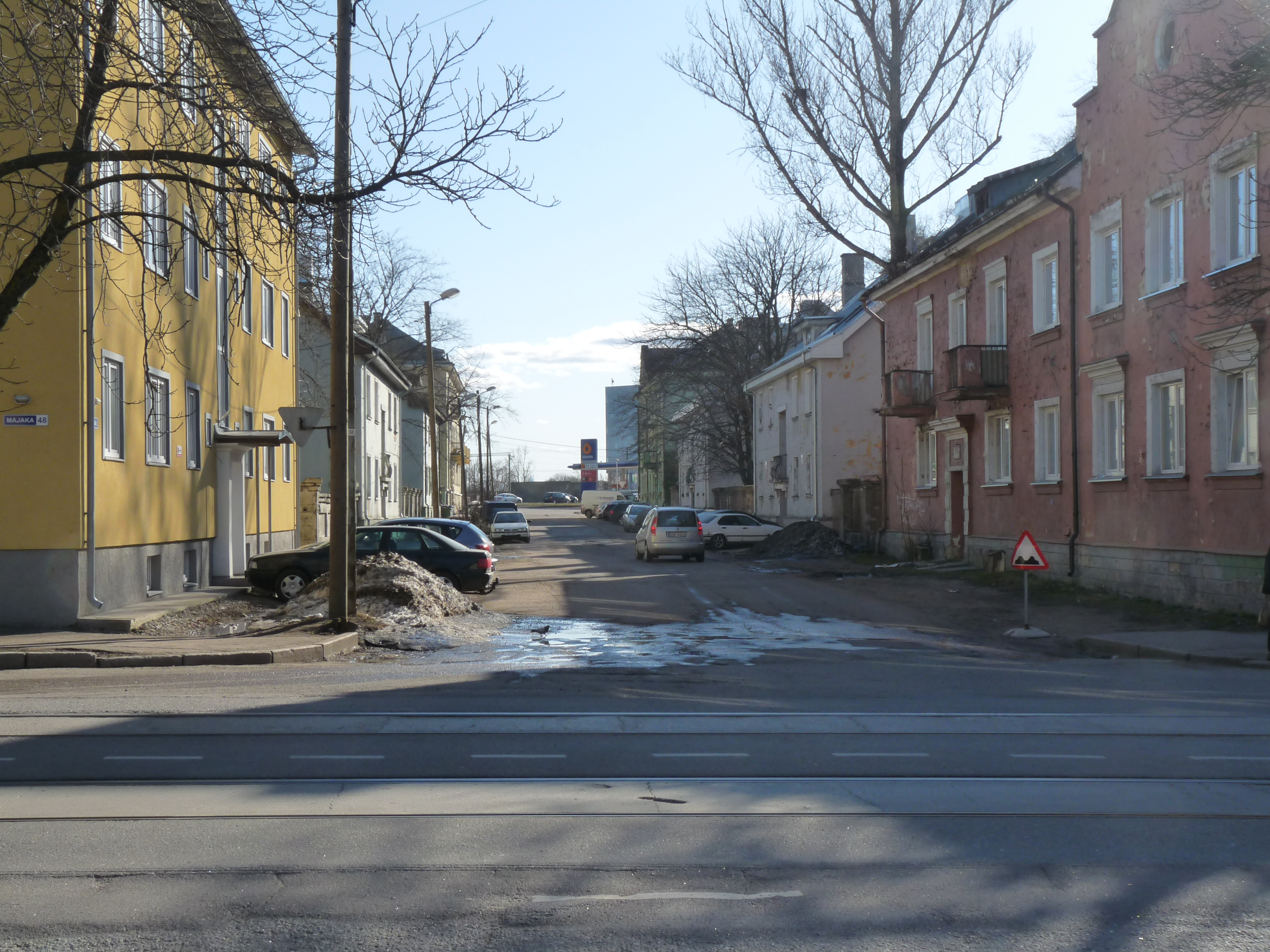 Tuulemäe street in Tallinn